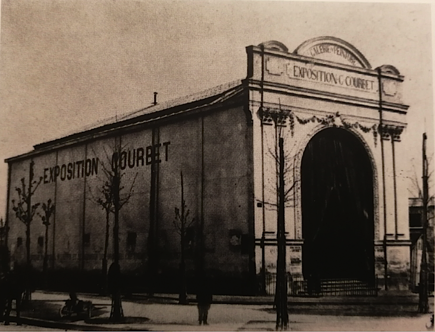 Photography of the building called Exposition Courbet on the front, built Place de l'Alma, during the International Exhibition, Paris, 1867. This is a private show paid by Gustave Courbet in order to show his own work.